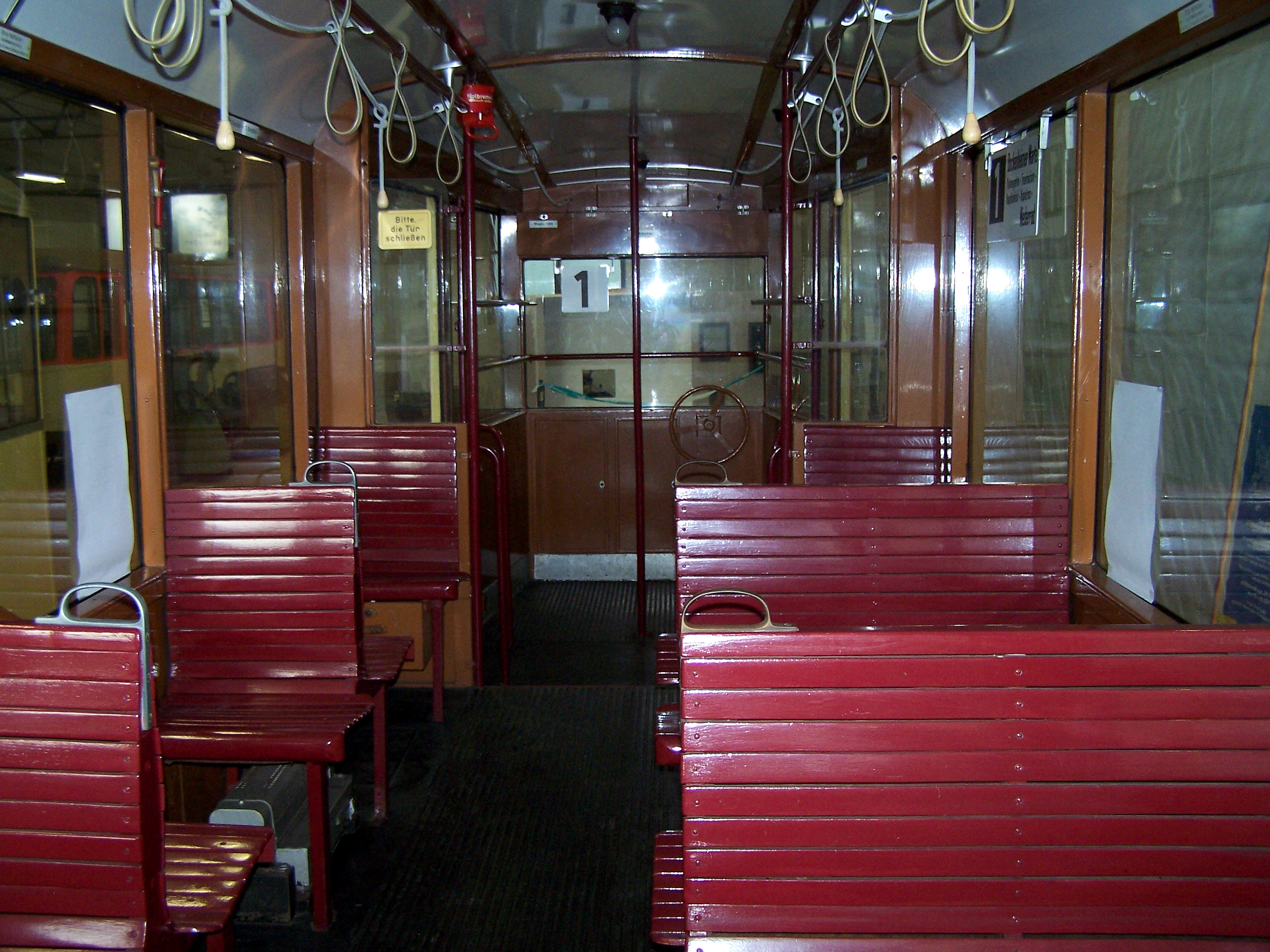 Inside view of i-type tram trailer 1468 at the Frankfurt on Main Transport Museum in Frankfurt am Main--Schwanheim